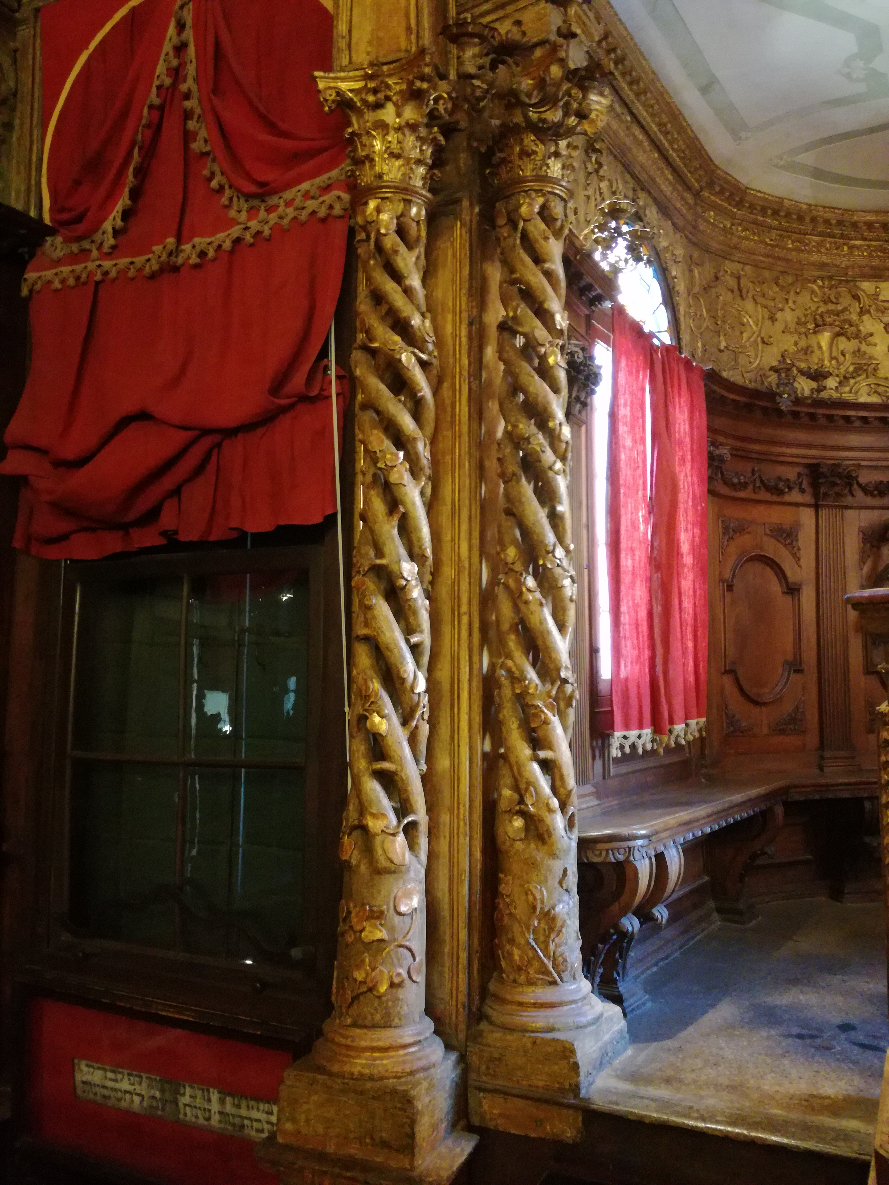 Two of the four original wooden columns flanking the bimah.